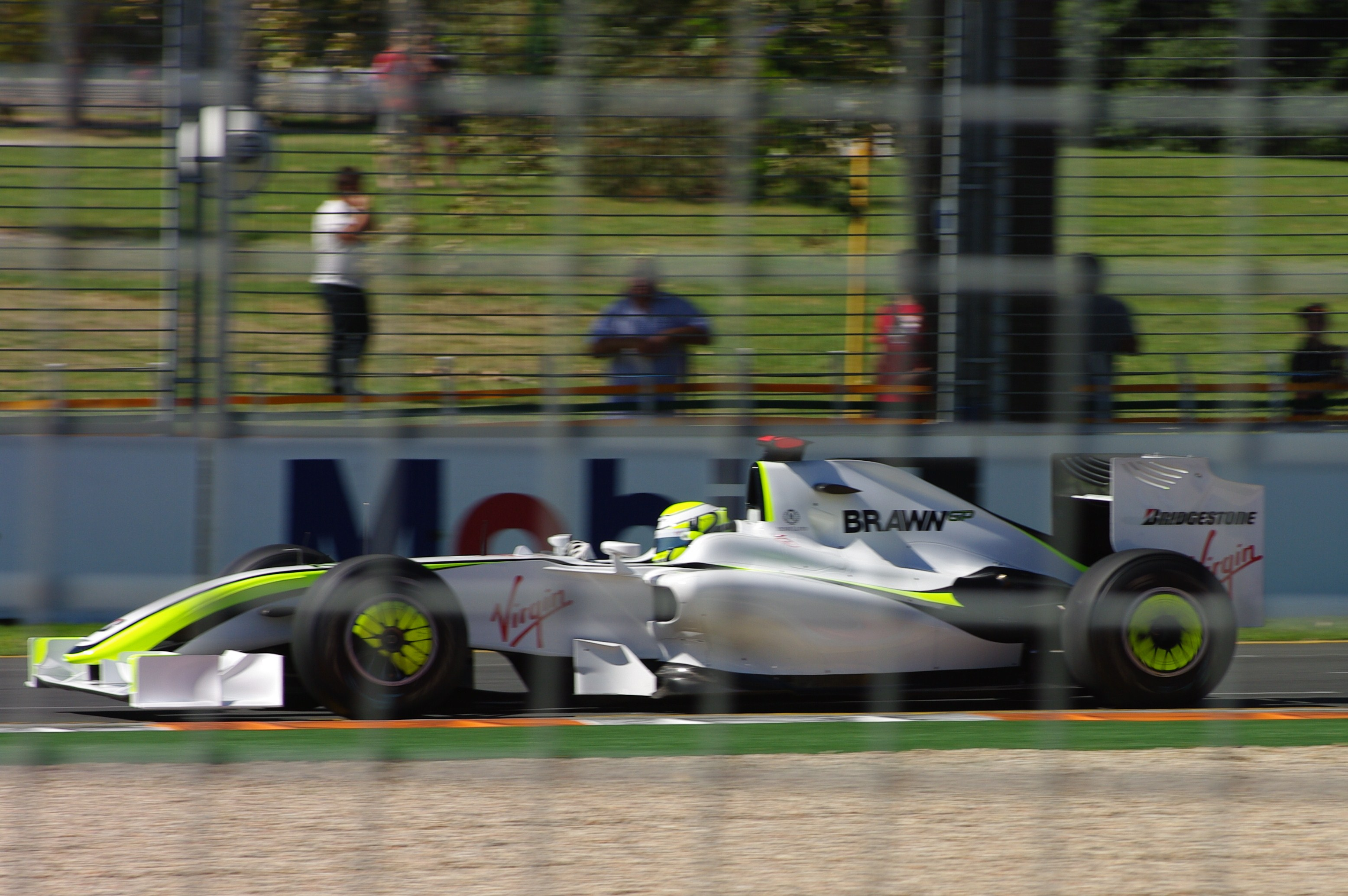 Button Brawn BGP001 Australia 2009